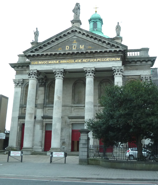 Photograph of Our Lady Refuge of Sinners church, Rathmines, Dublin